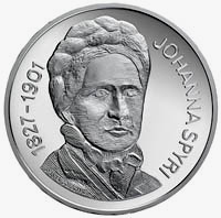 Swiss Commemorative Coin 2001 B CHF 20 obverse